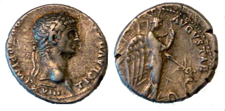 Denarius of the Roman emperor Claudius. 50-1 AD. RIC 58. Picture taken with digital camera